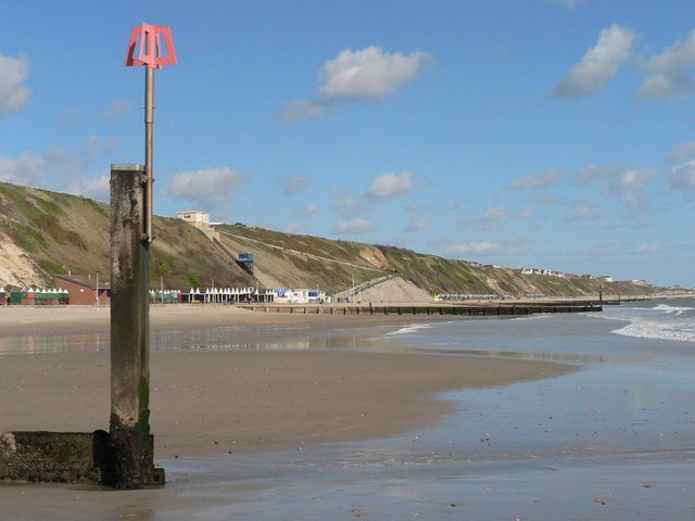 The Fisherman's Walk Cliff Railway at Southbourne, near Bournemouth, Dorset, England. For more information see the Wikipedia article Fisherman's Walk Cliff Railway .